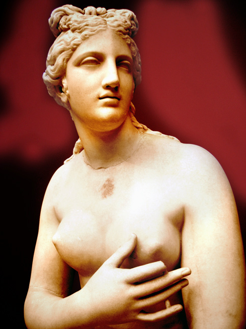 Aphrodite, National Archaeological Museum of Athens. Colors and background edited